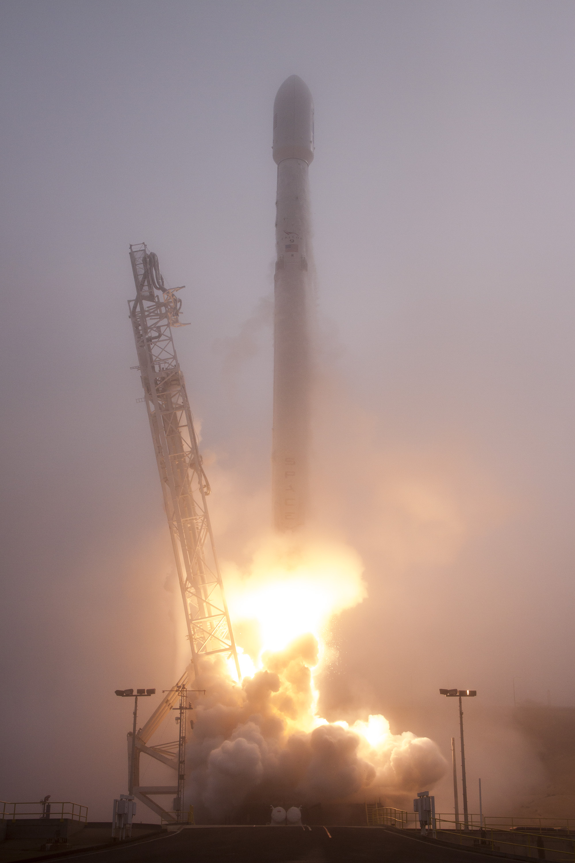 Jason-3 launch